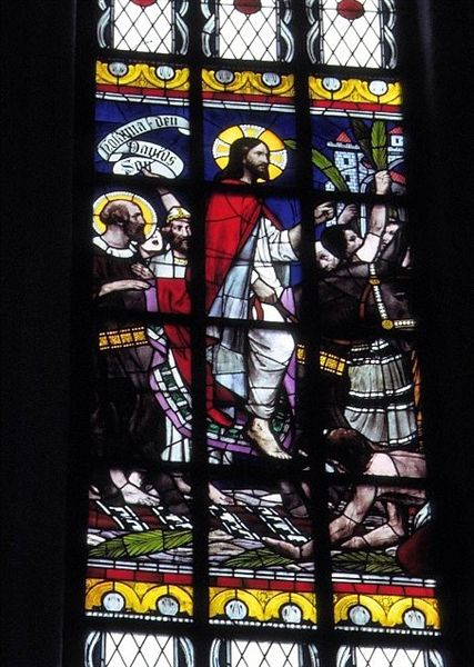 Glass paintings in Sankt Mikkels Kirke, Slagelse by C.N. Overgaard